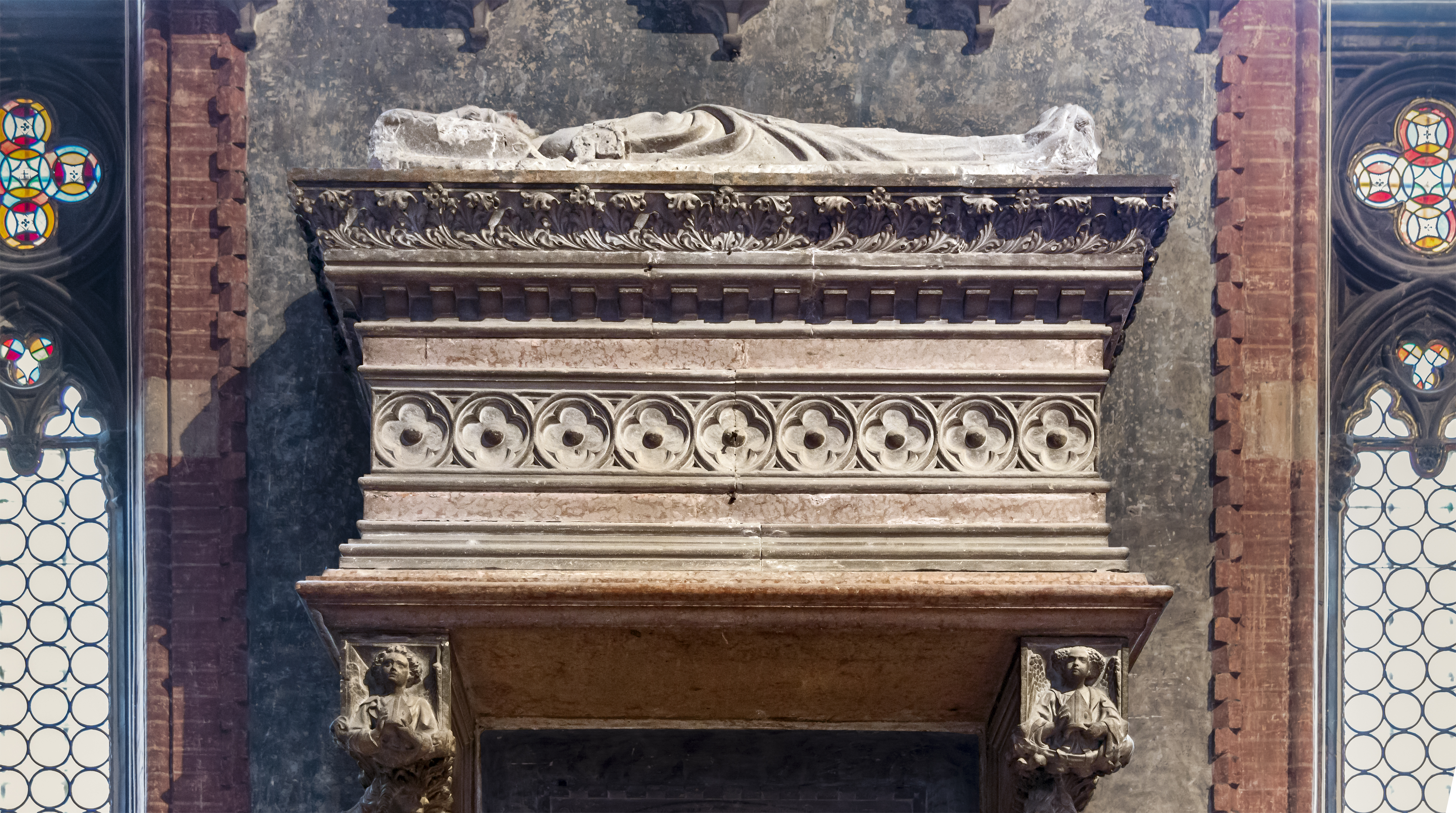 Santa Maria Gloriosa dei Frari, The chapel of St. Peter. Monument to Pietro Emiliani started in 1434 and set up in 1464. Is the work of the workshop of the brothers Della Masegne.